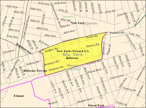 U.S. Census 2000 reference map for Bellerose, New York